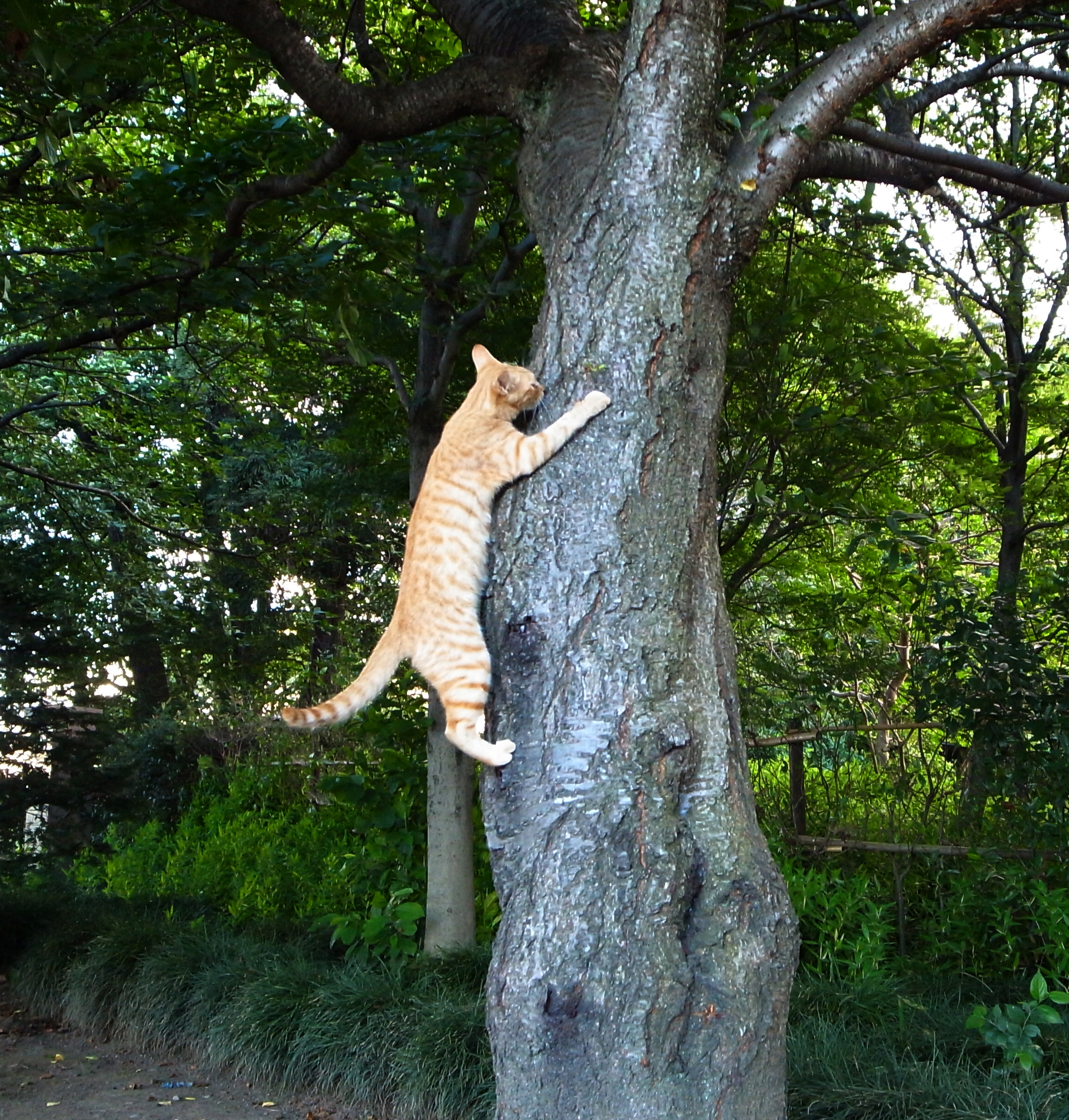 A cat in Uchimaki Park, Kasukabe, Saitama, Japan.